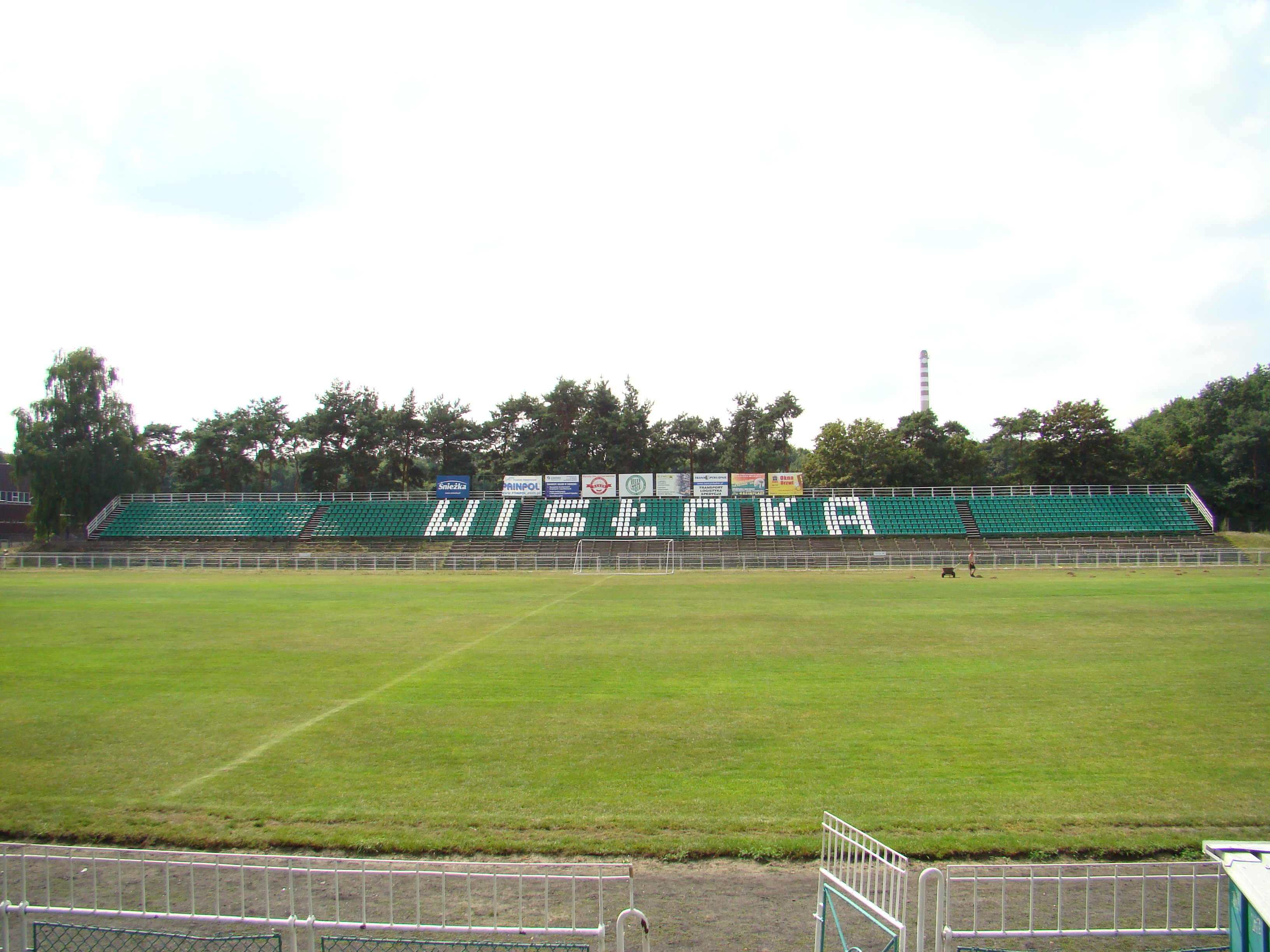 Stadium of Sport Club Wisłoka Dębica